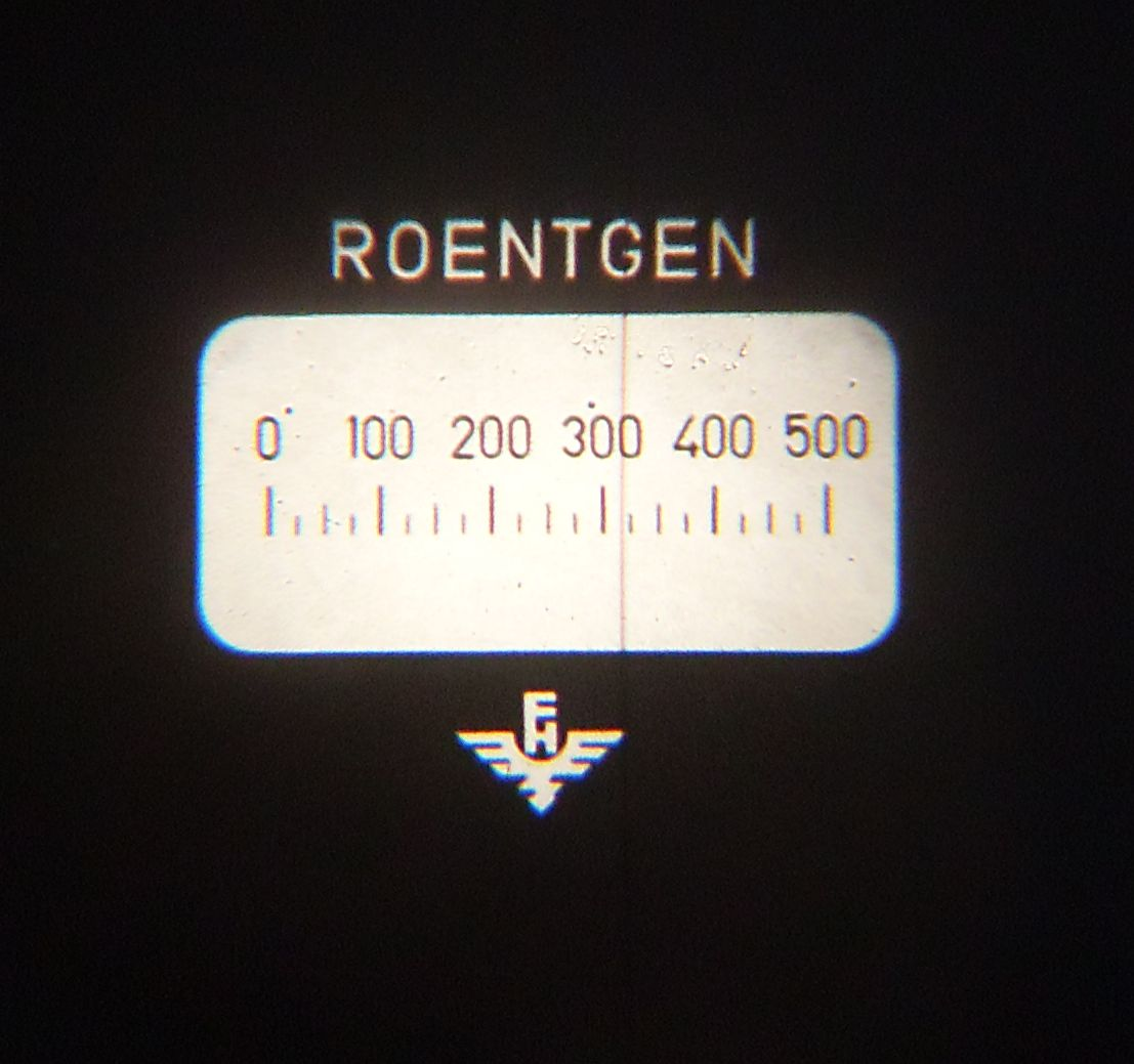 Readout of a radiation protection dosimeter